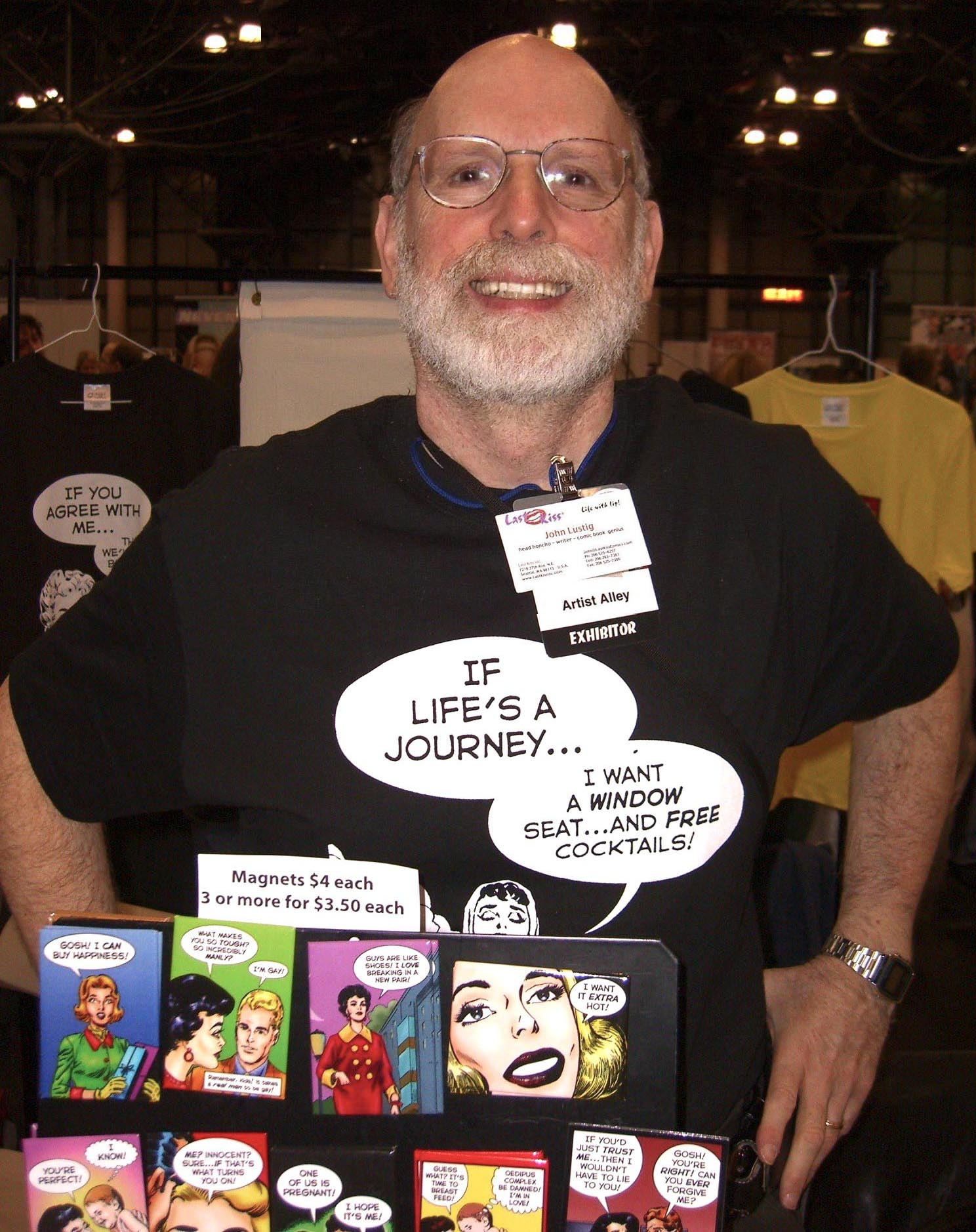 Comic book creator John Lustig, at the New York Comic Convention in Manhattan, October 10, 2010. Photo by Luigi Novi. This photo may be used, modified and published for any purpose, only if a easily visible credit to the photographer is placed near the photo in each instance in which it is used. (See licensing information below.) Publication of this photo without this proper attribution constitute copyright infringement. For more information on my photos, you can contact me here.